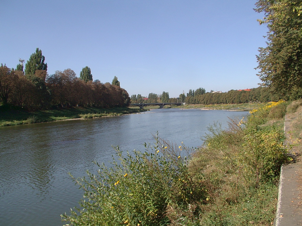 Bridge on Uzh river, Uzhgorod, Ukraine.